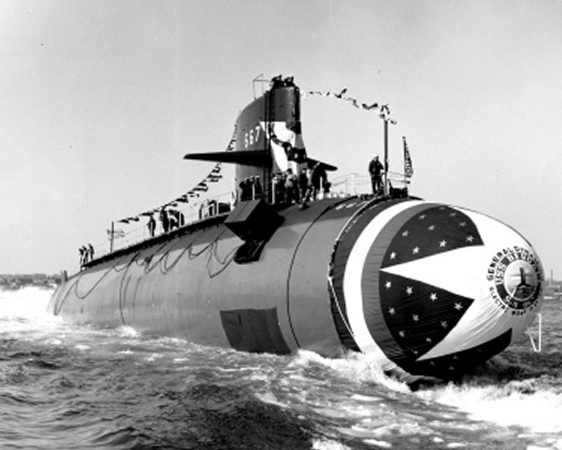 United States Navy attack submarine USS Bergall (SSN-667) is launched at the Electric Boat Division of General Dynamics Corporation at Groton, Connecticut